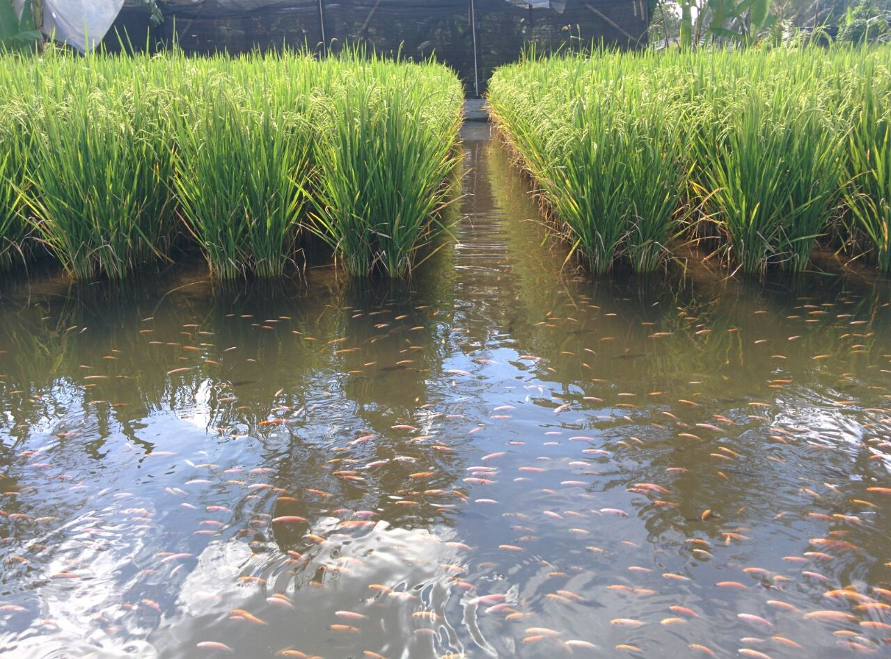 Combined cultivation of rice and tilapia fish aquaculture in a paddy field.Yogyakarta.